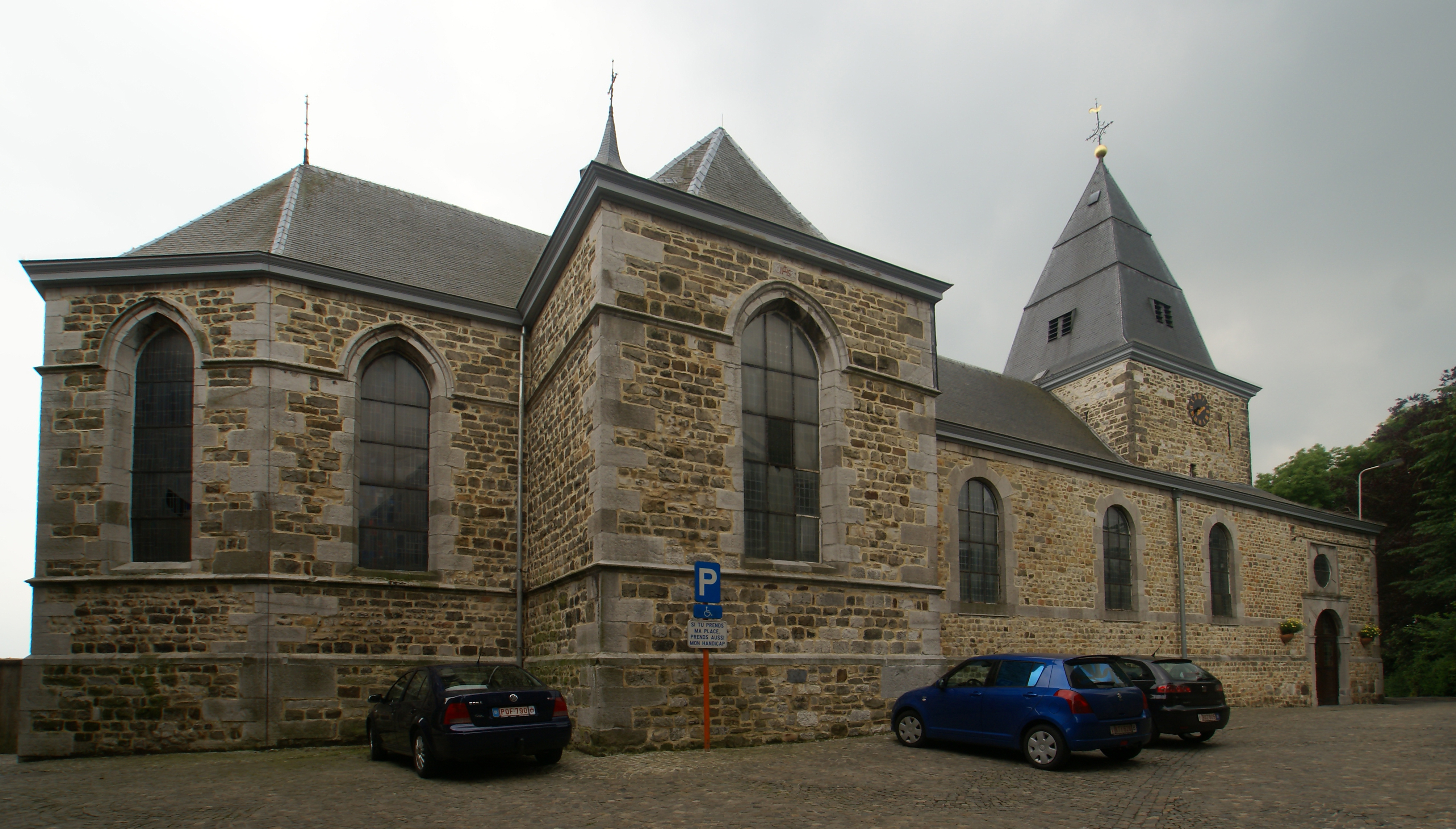 Henri-Chapelle (Belgium): Saint George's Church